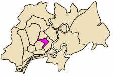 position of district 3 in an outline of the core area of HCMC (Ho Chi Minh City, Vietnam) - ISO code VN-F-HC. Keywords: map, outline, city, Ho Chi Minh City, HCMC, HCM, district 3, quan 3.